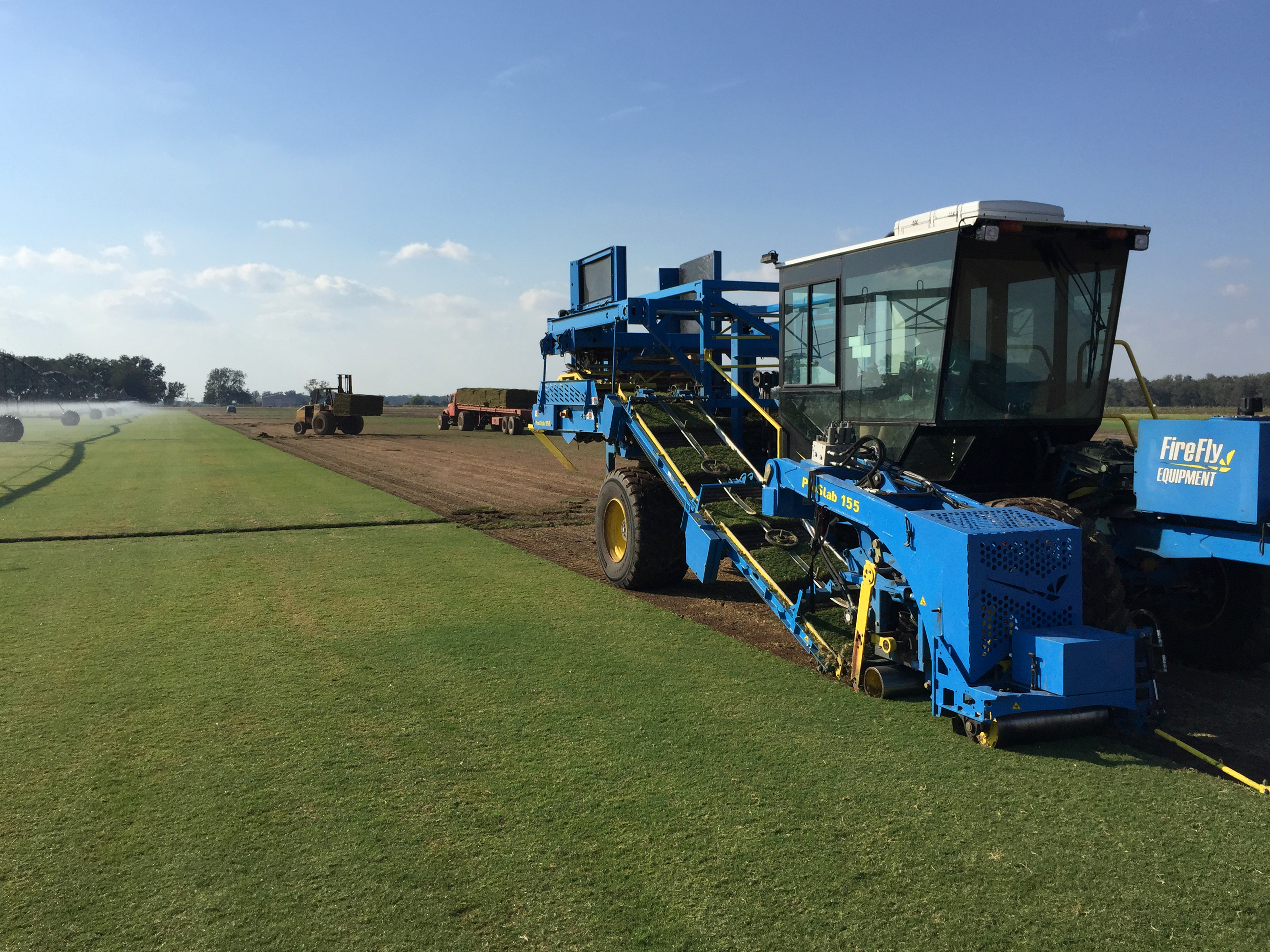 FireFly Equipment's ProSlab 155 self-propelled automatic stacking sod harvester with internet connectivity